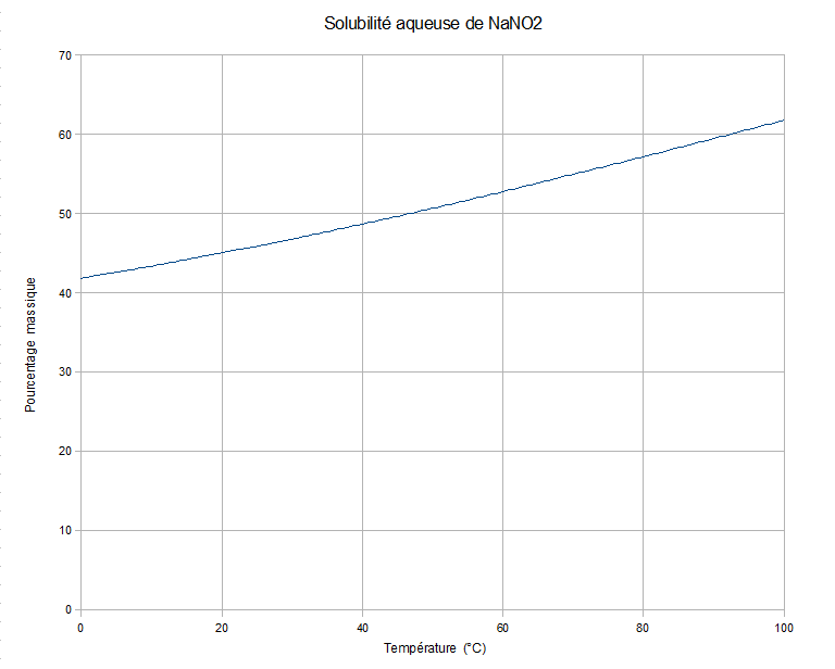 Solubilité aqueuse du nitrite de sodium